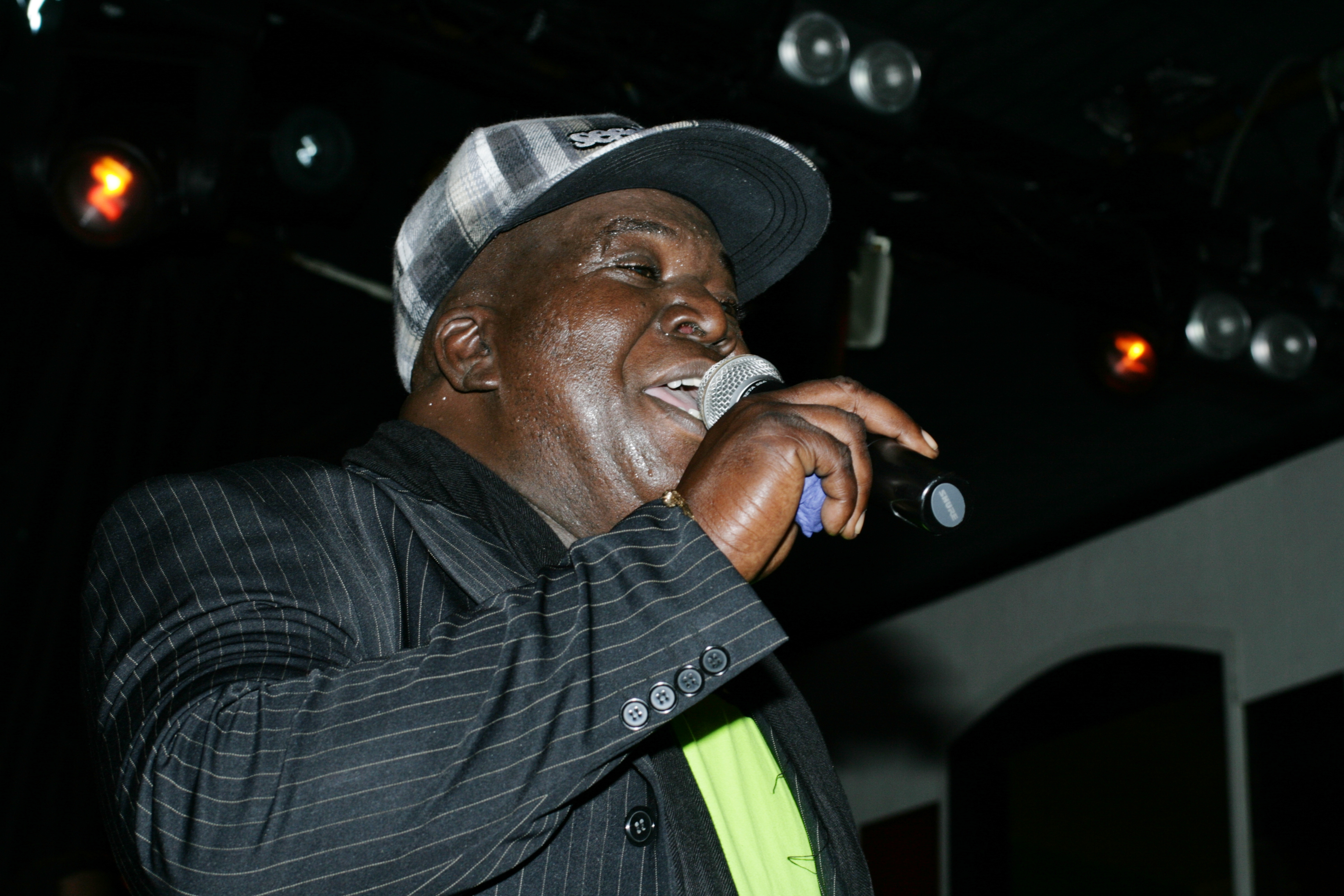 Barrington Levy singing in Göra Källare in Stockholm, Sweden. 29 november 2009